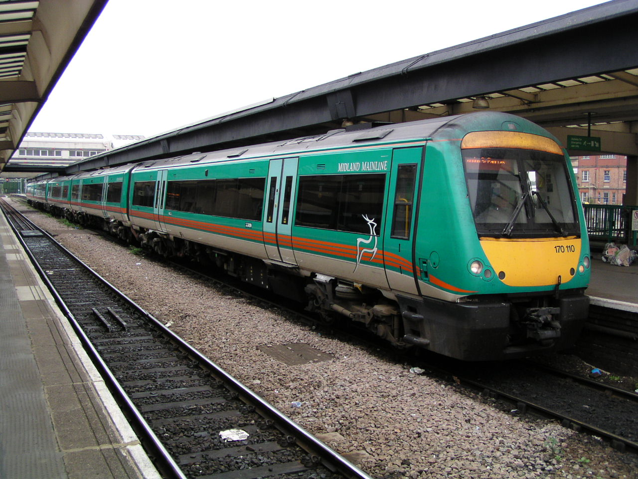 BR Class 170, nos. 170110 and 170117 at Derby on 18th September 2003. Midland Mainline transferred the Class 170s to Central Trains in 2004 and these units are now operated by CrossCountry.